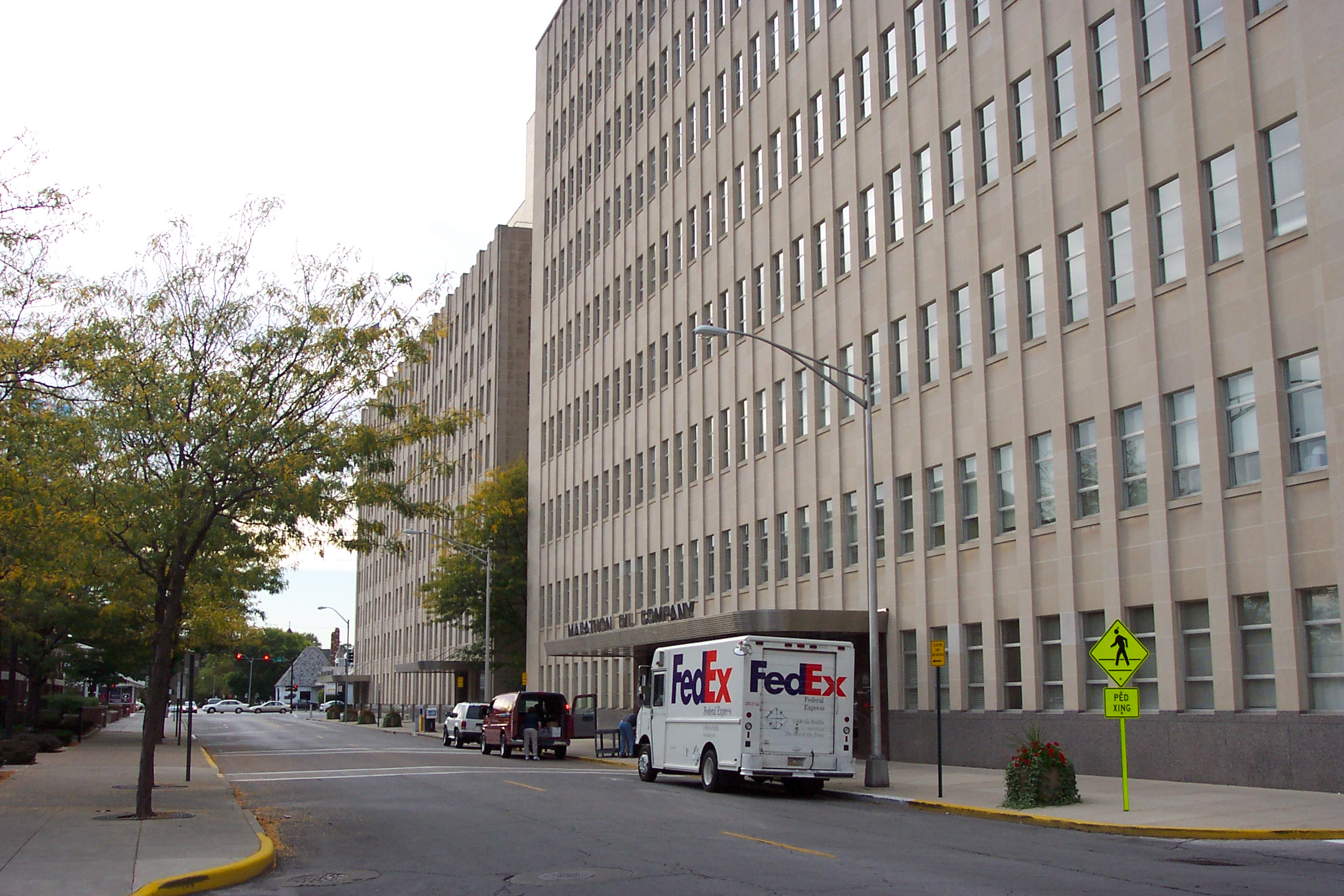 Photo by Andrew VanAtta. This is the a view looking east along Hardin Street in downtown Findlay. Seen to the right is the offices for the Marathon Oil Corporation operations in Findlay.